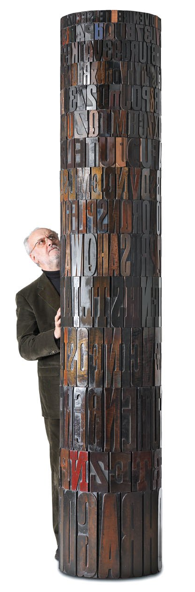 Assemblaggio di caratteri tipografici di legno 2006 - cm h 300 x ø 56